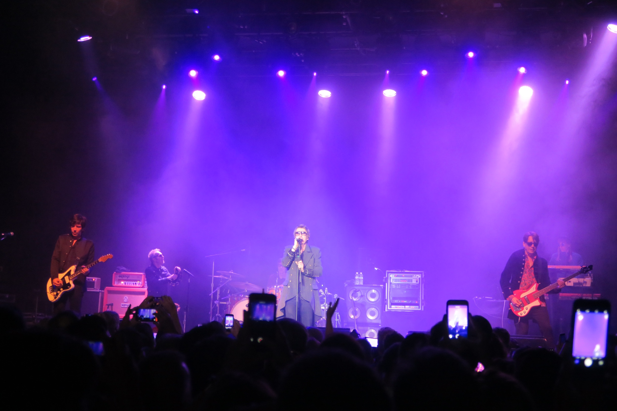 The Psychedelic Furs with Robyn Hitchcock, July 25, 2017